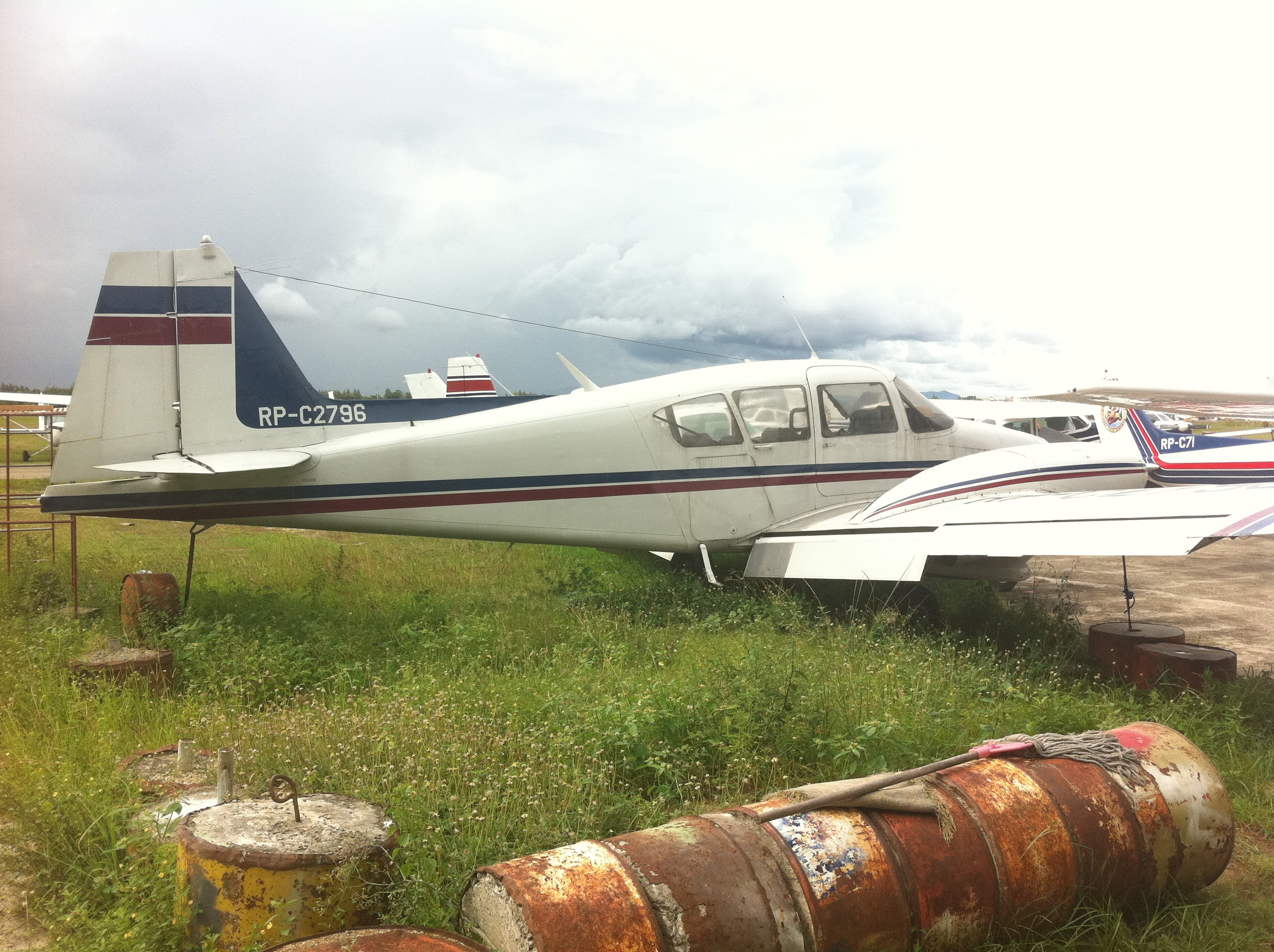 At Mactan-Cebu International Airport